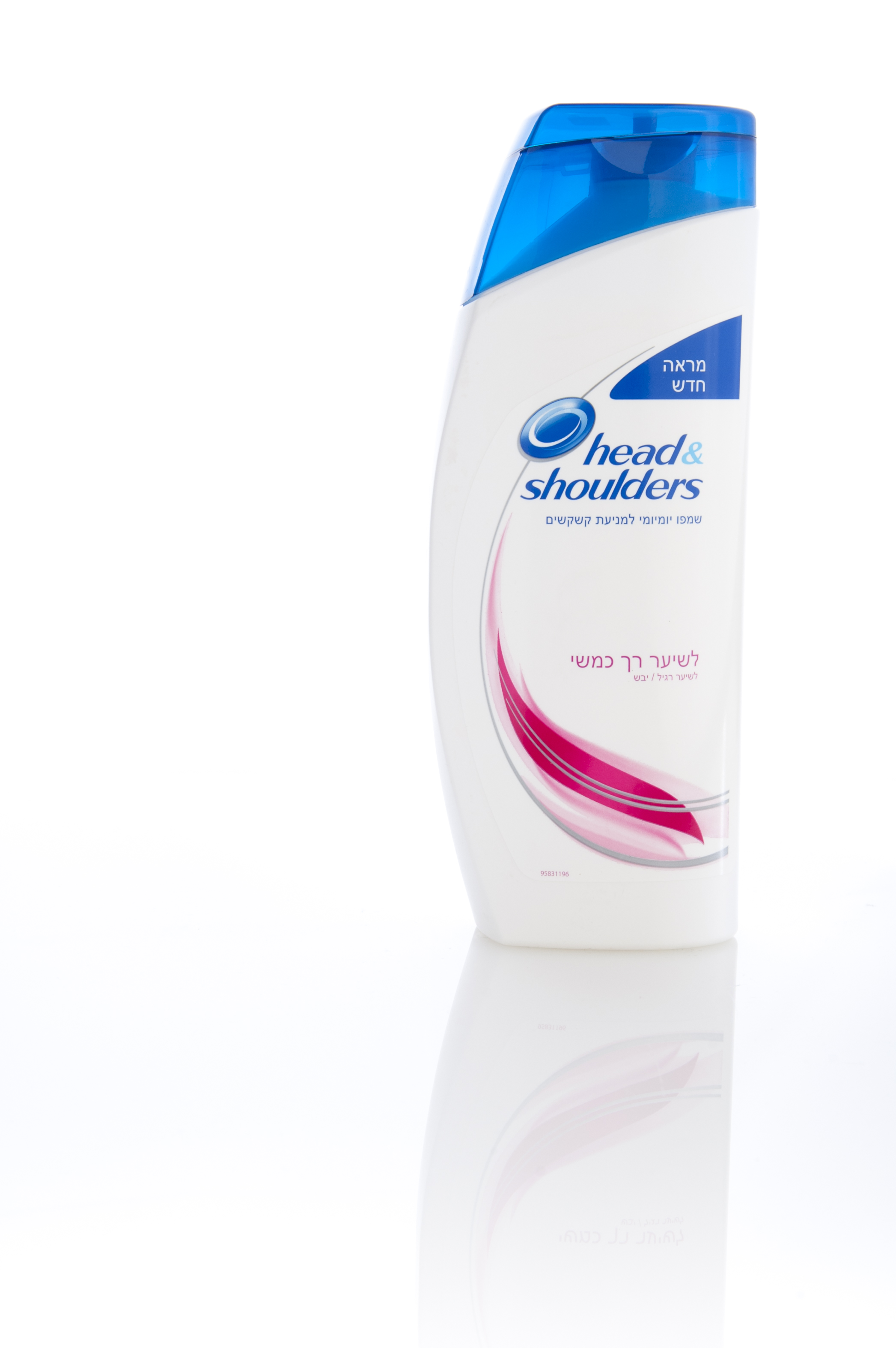 Head & Shoulders shampoo bottle, marketed in Israel